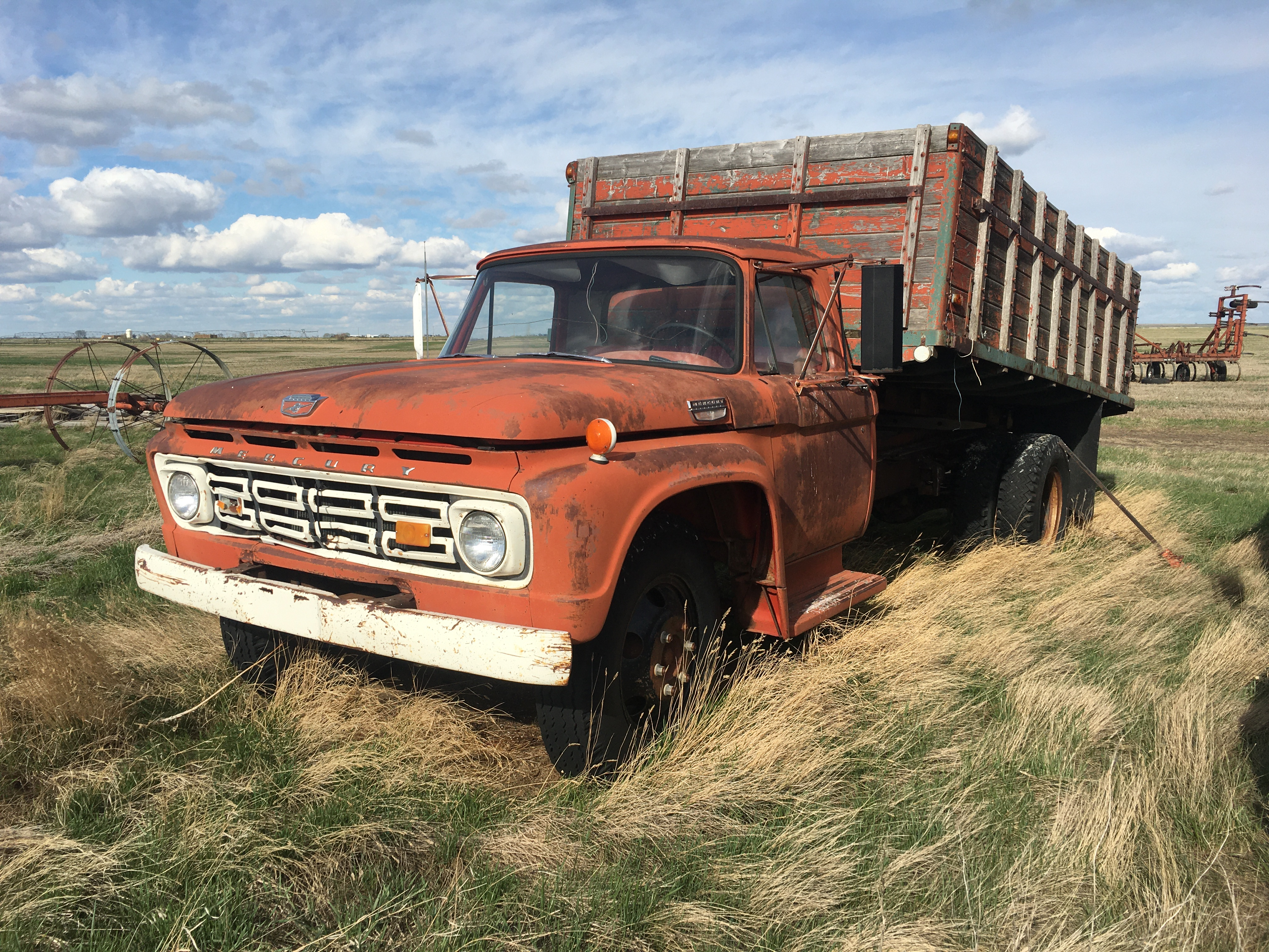 A 1964 M-600 Grain Truck